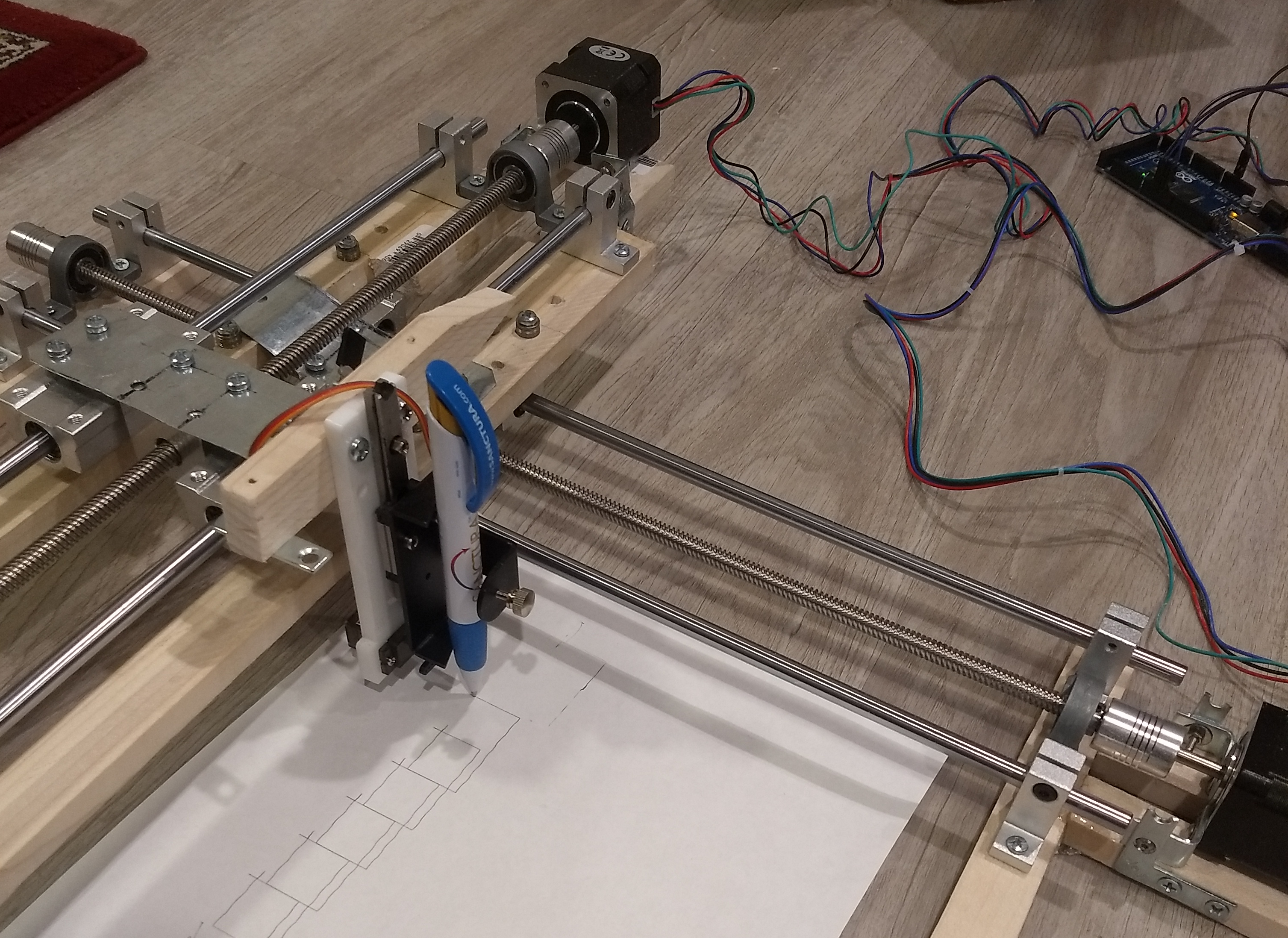 Homemade plotter printer using a ballpoint pen to draw.